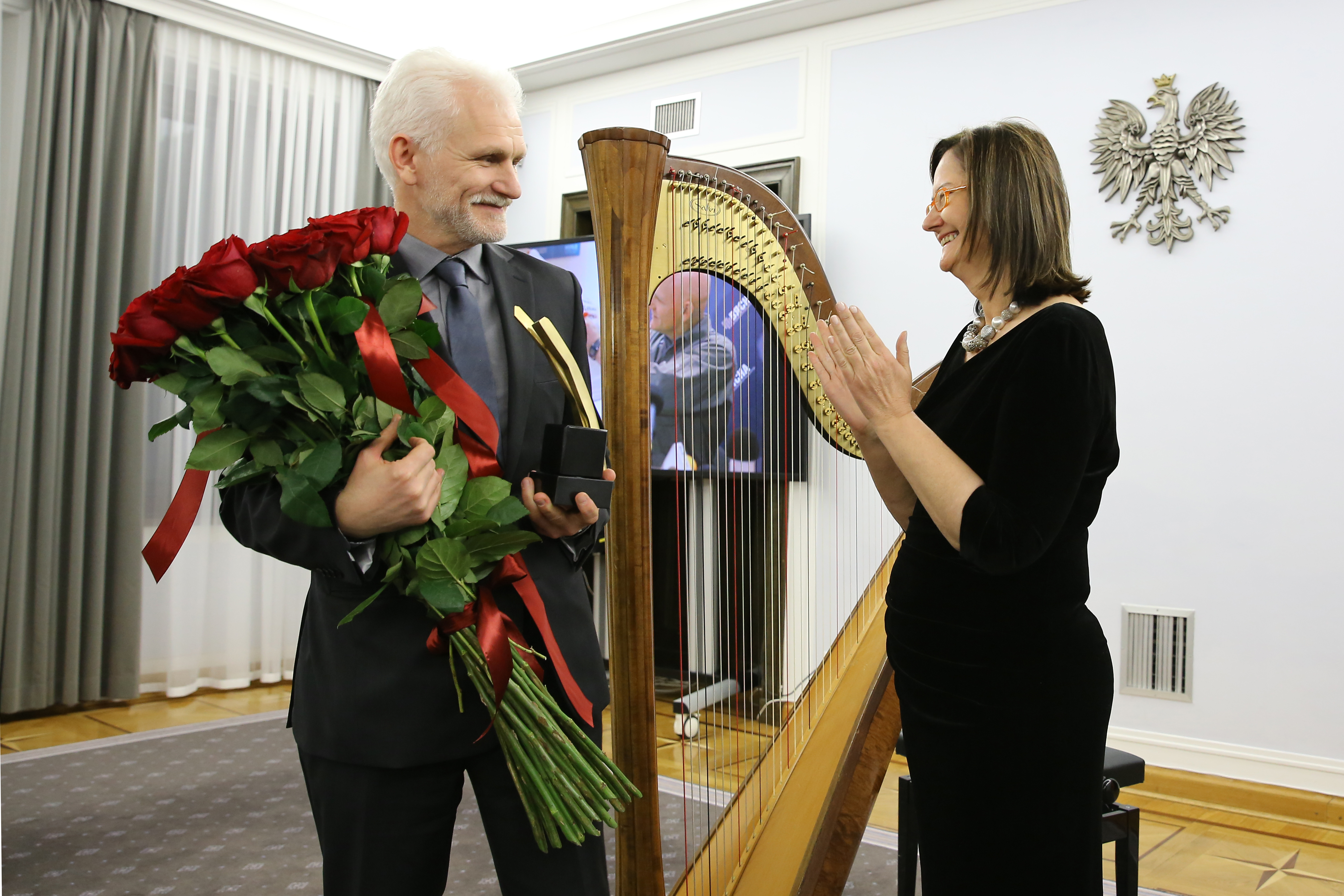 Ales Bialiatski during Paweł Włodkowic Award ceremony in the Polish Senate